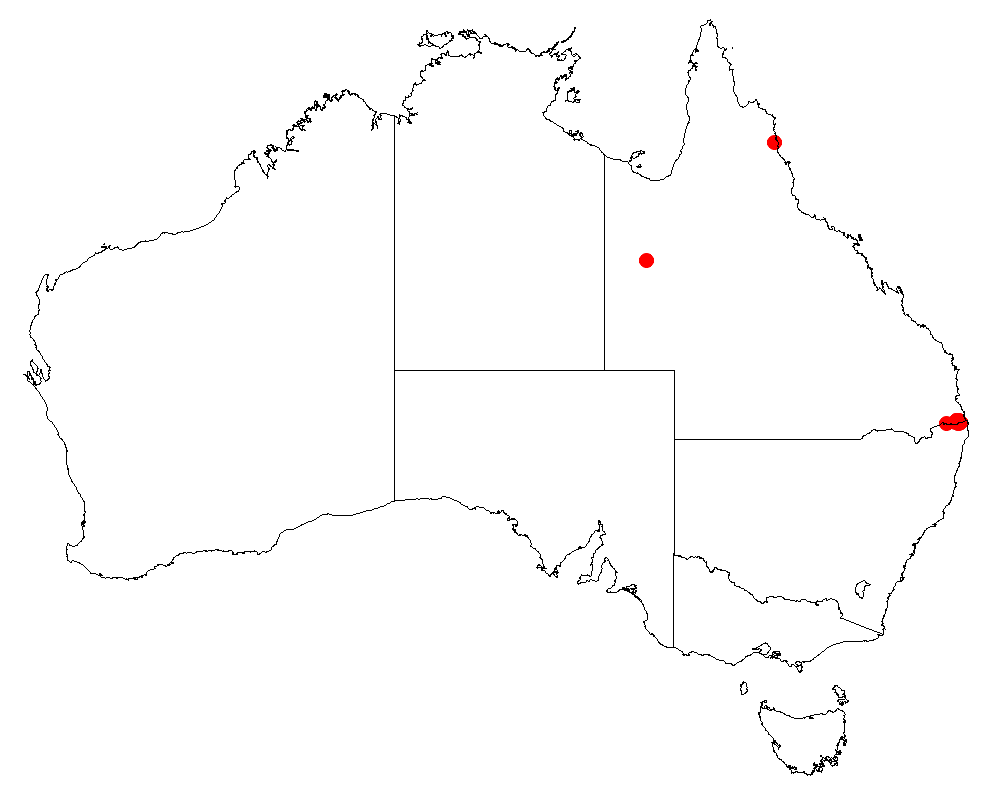 Parsonsia tenuis Occurrence data for Australia from Australasian Virtual Herbarium downloaded 22 December 2018